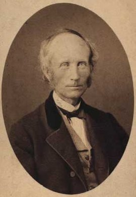 Hinrich Johannes Rink (1819-1893), Danish geologist, geographer, and arctic explorer